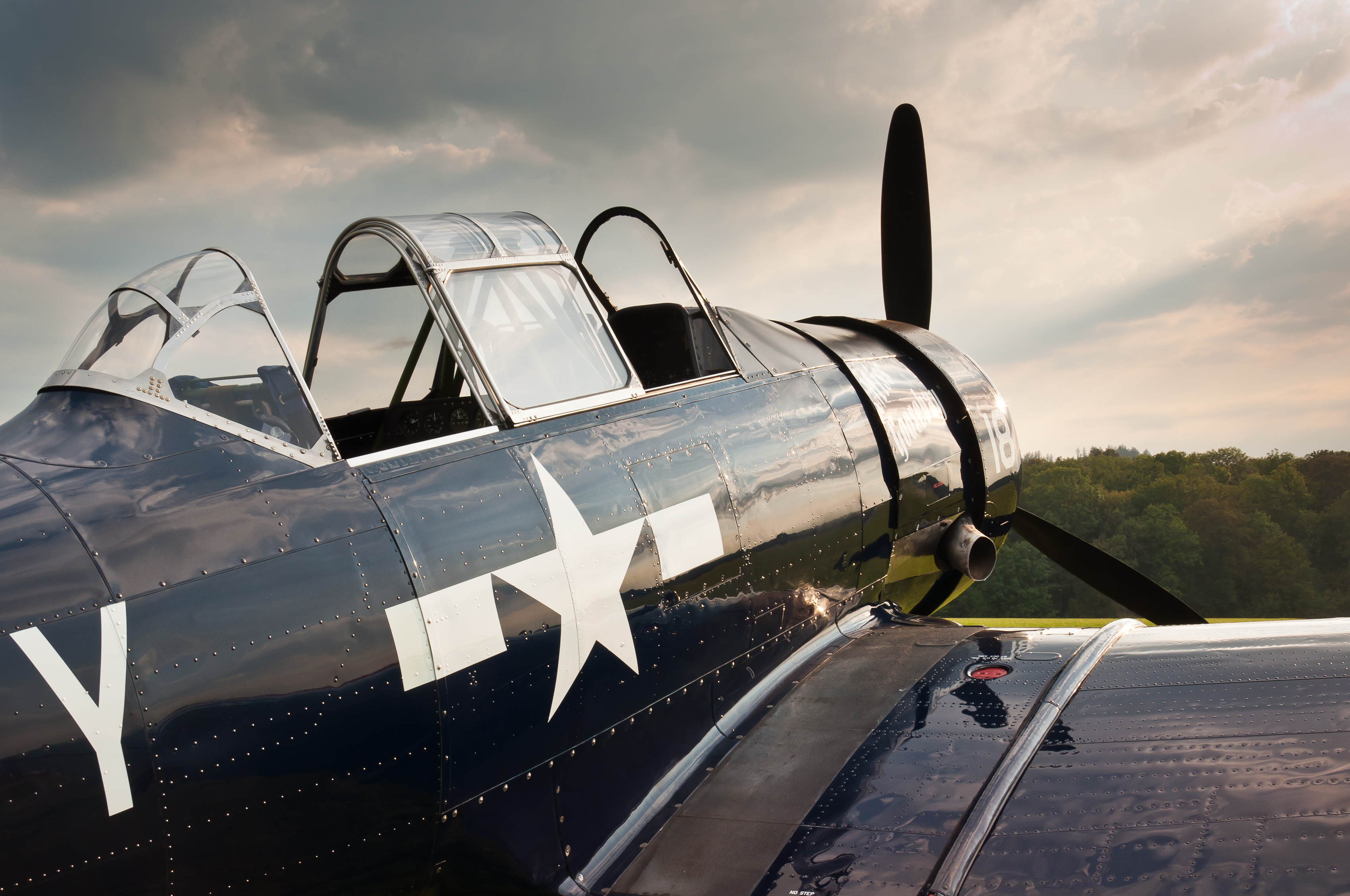 North American AT-6G-NF Texan (reg. N6593D, cn 42-43899(C-NT)/49-3357(G-NF), built in 1942, 600 hp Pratt & Whitney R-1340-AN-2 rotary engine).